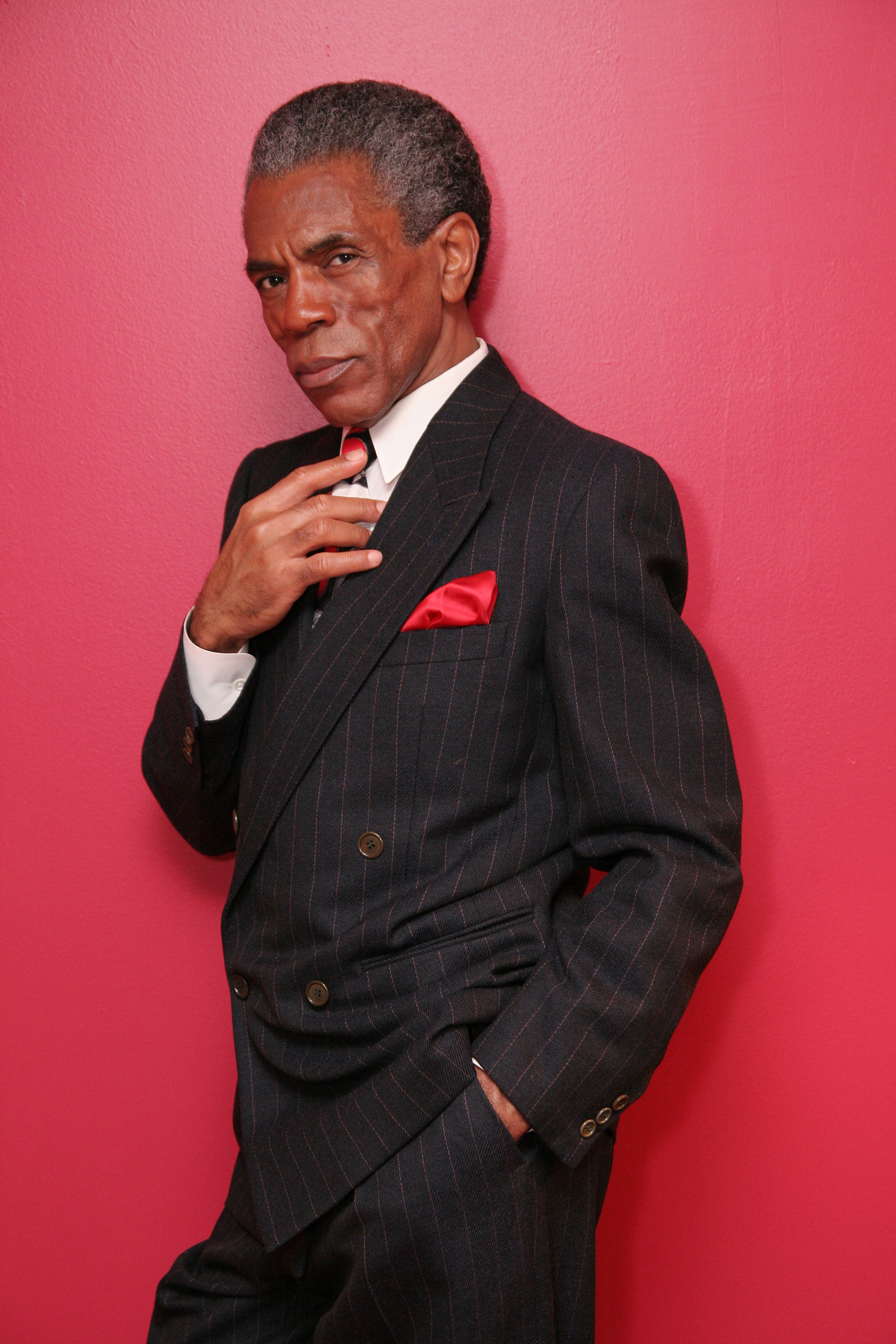 André De Shields at home in New York on February 11, 2009. Photo by Lia Chang